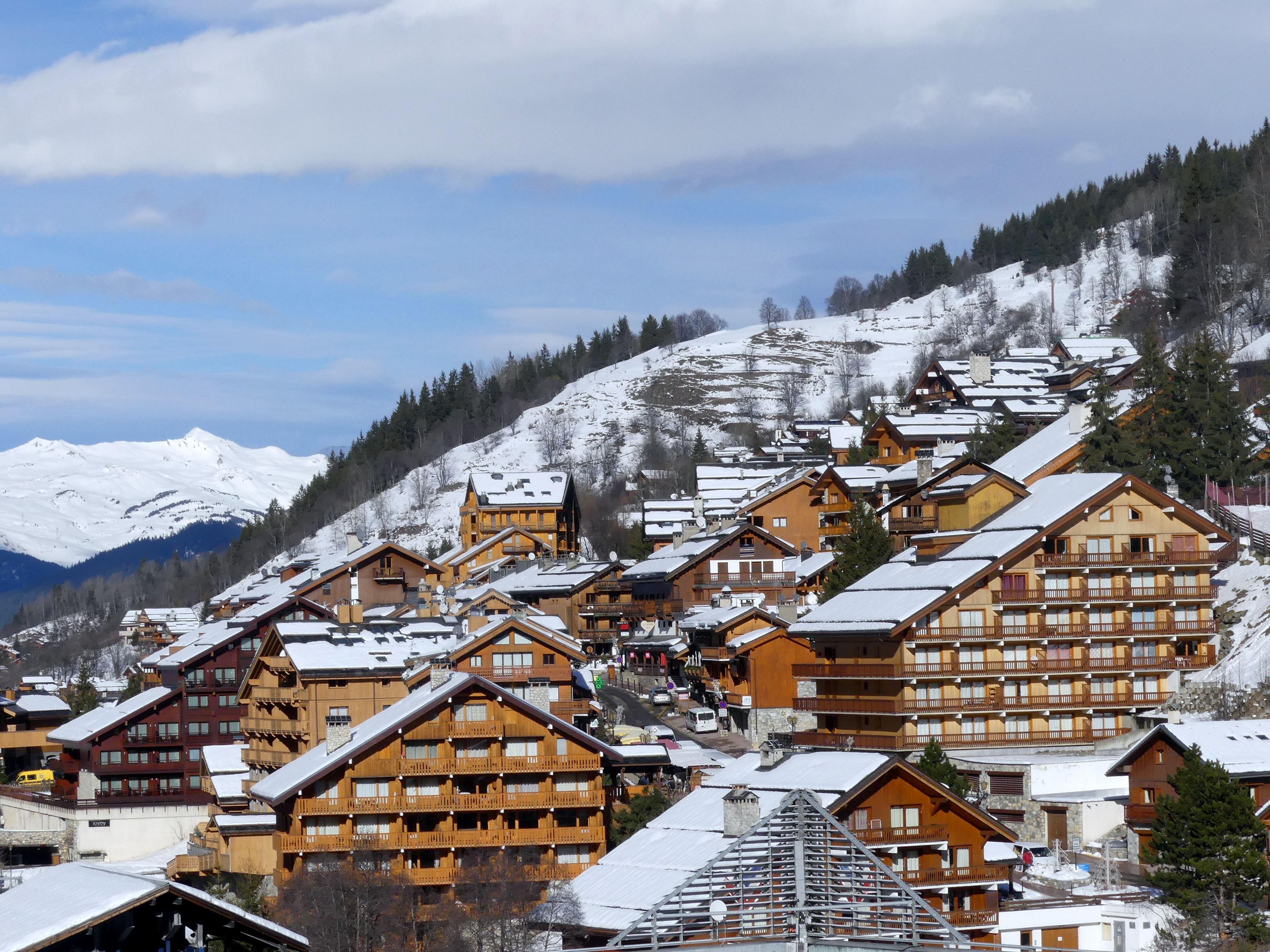 Sight of Méribel-Centre chalets, in Savoie, France.